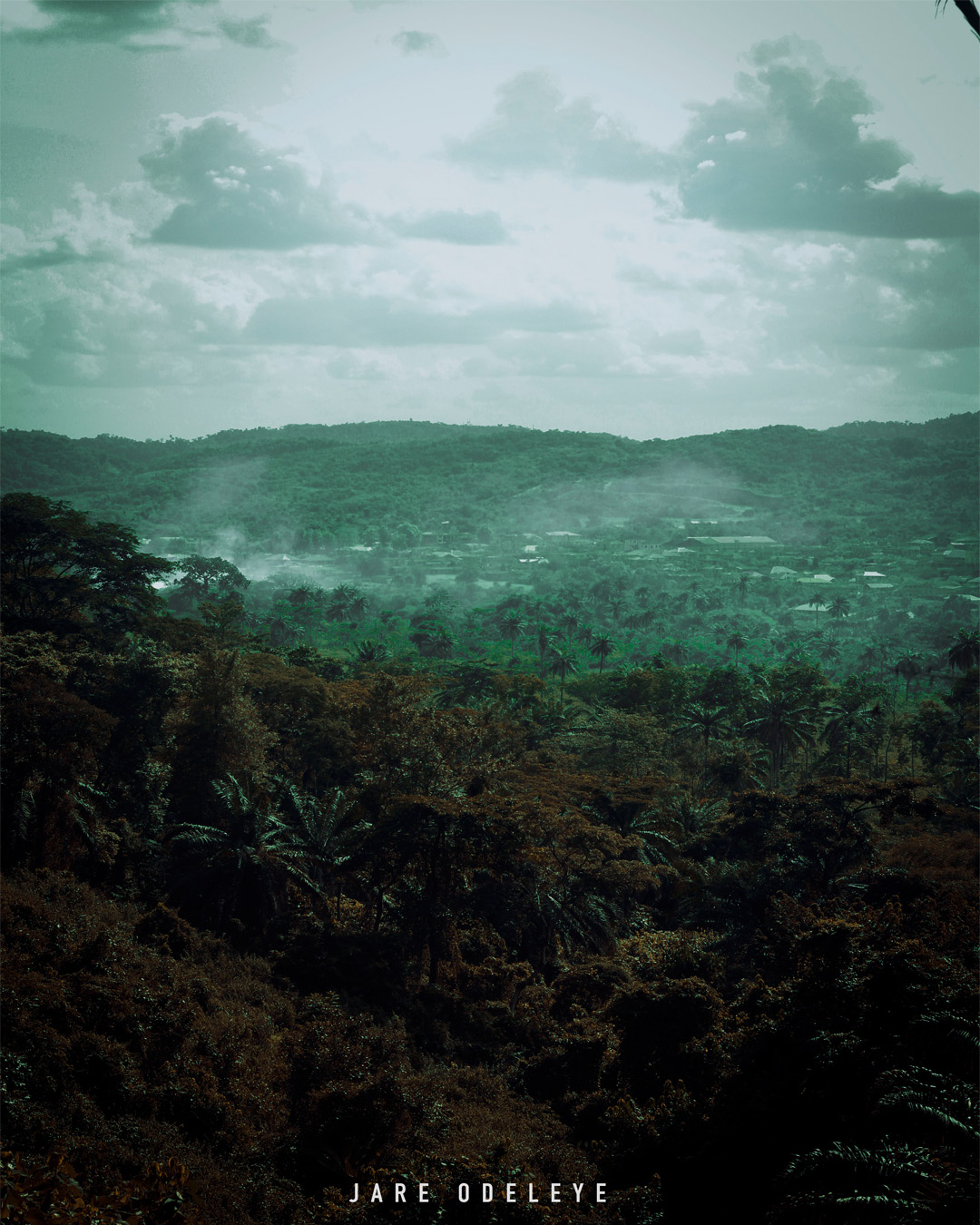 This is the view from level four of Erin ijesa